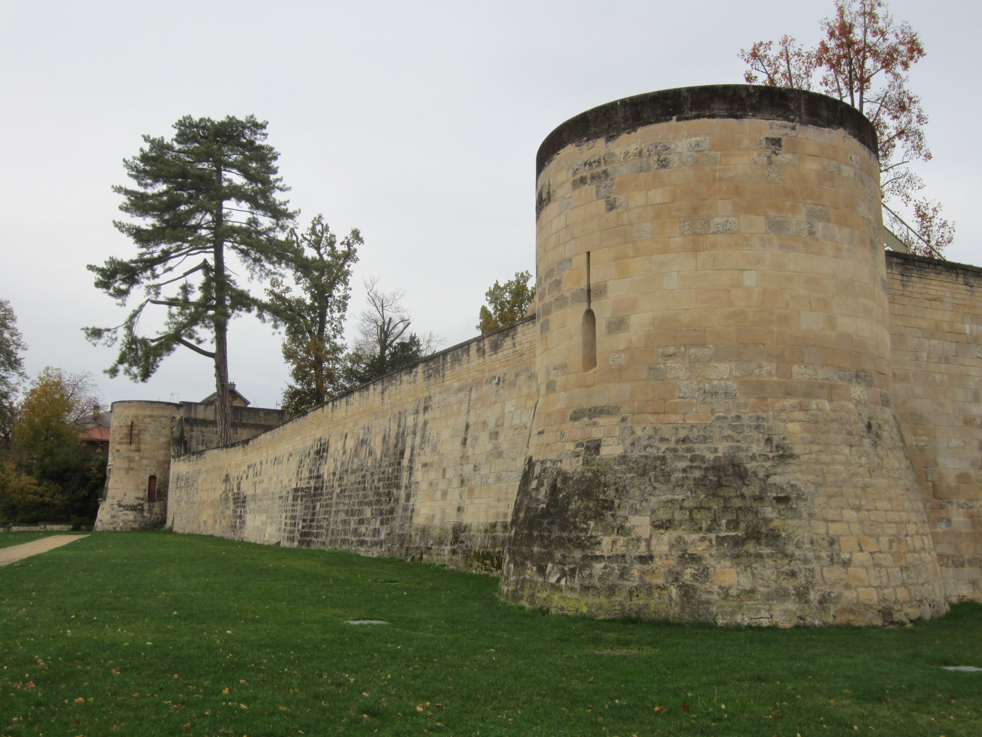 Description remparts Saint Dizier Date9 November 2011Sourcemon appareil photoAuthorAimelaimePermission (Reusing this file) remparts Saint Dizier